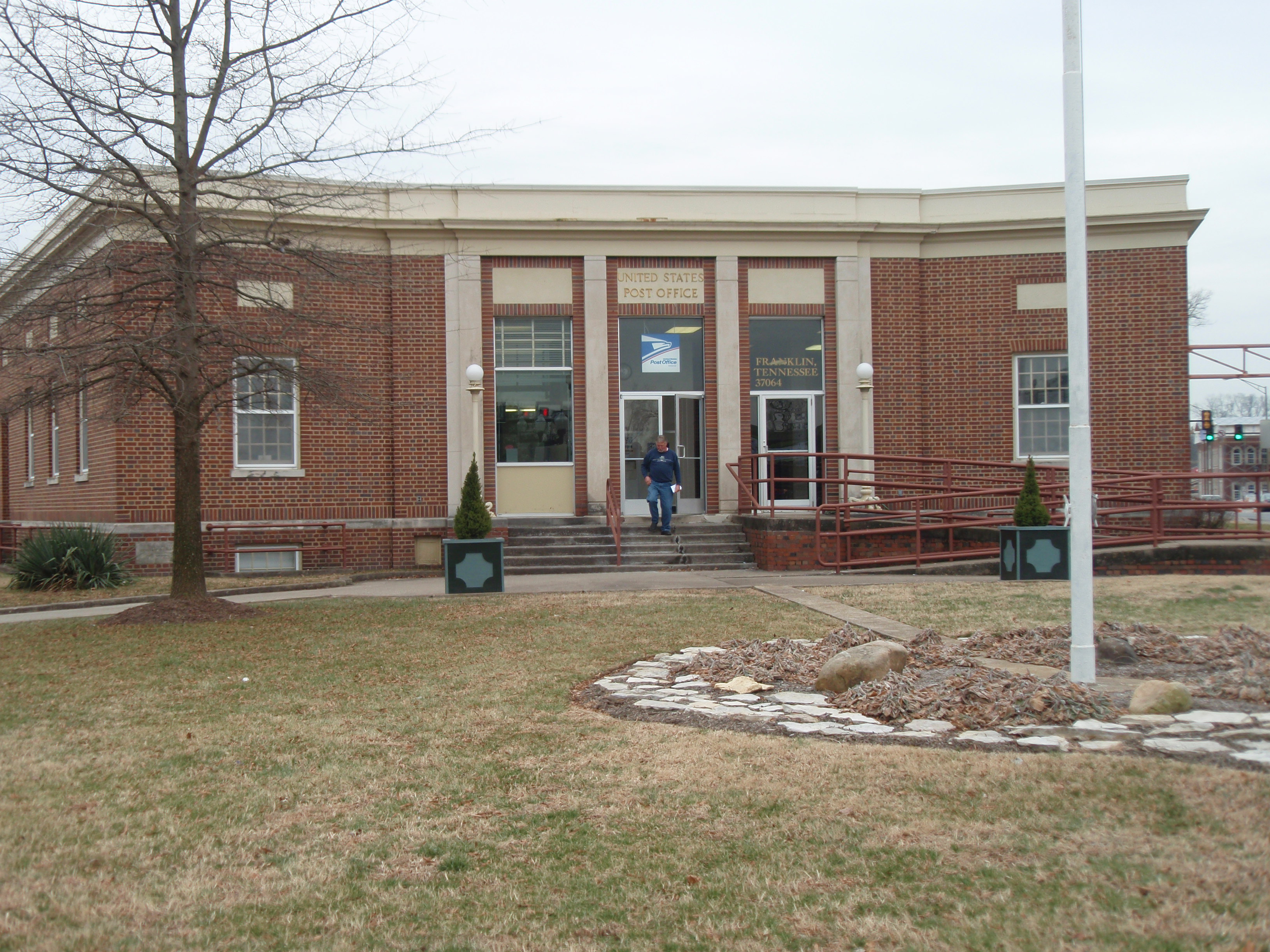 Franklin, Tennessee Post Office (Original)